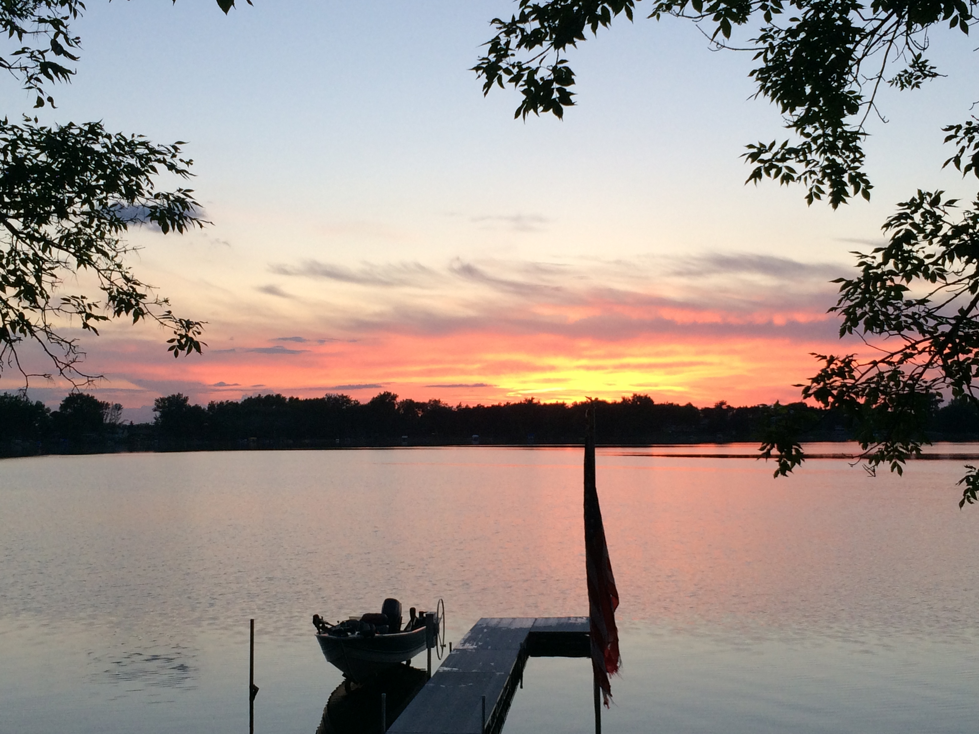 Photo taken from the East side of Amelia Lake